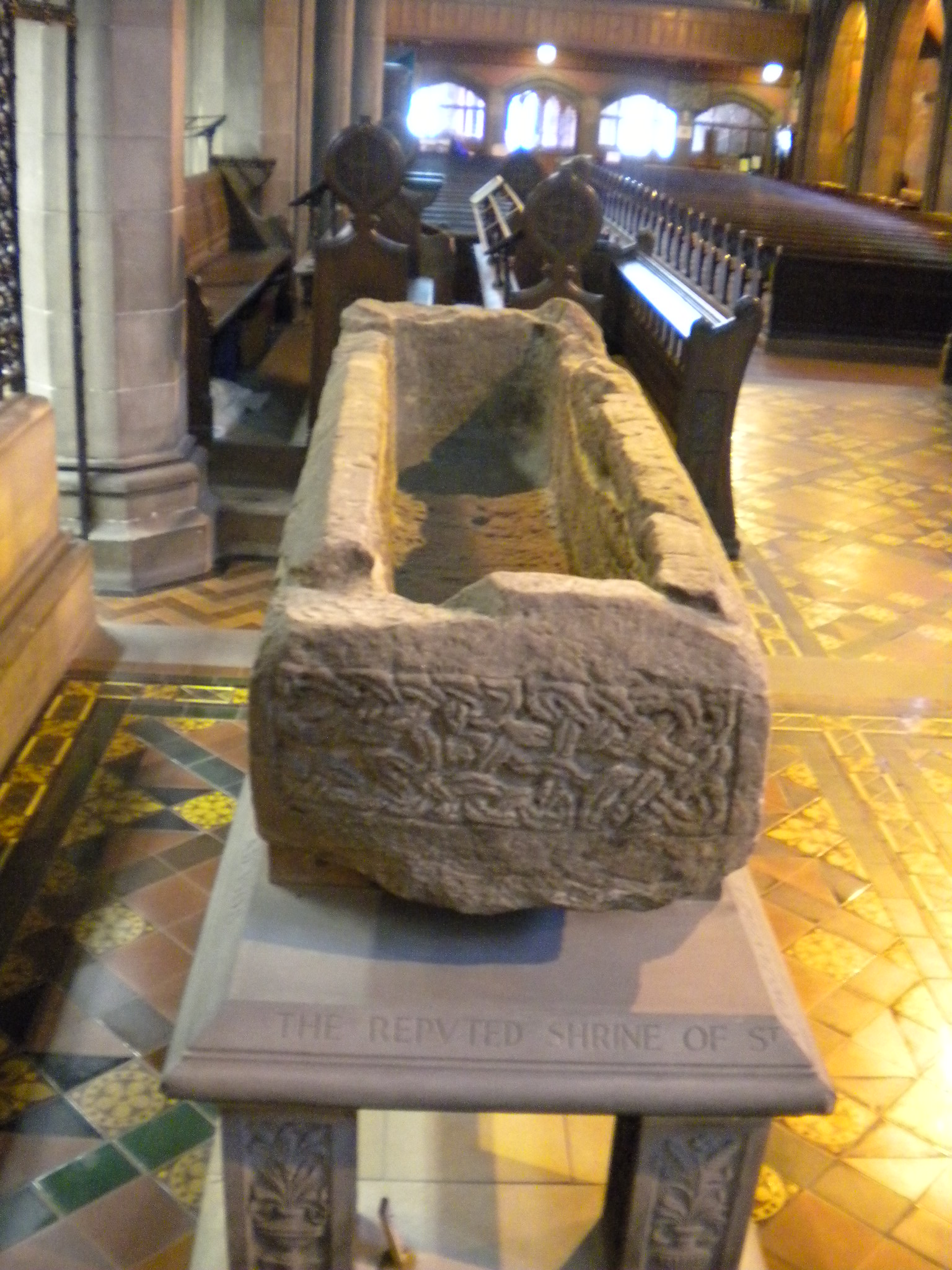 This is one of 31 carved stones in Govan Old Church, Glasgow. It is one end of the sarcophagus.